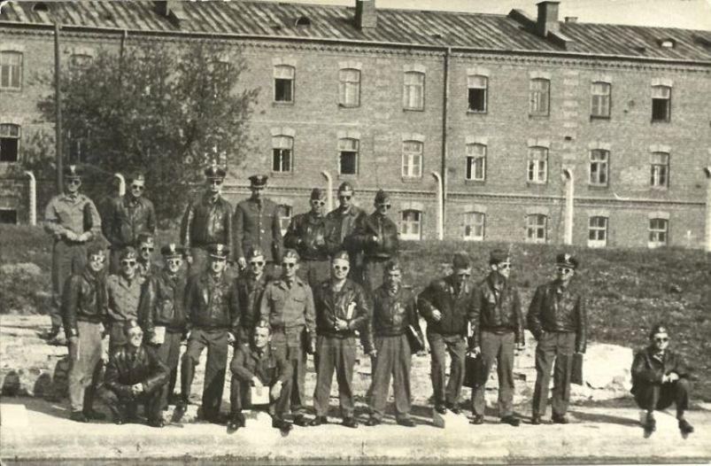 Przasnysz, oficerowie słuchacze na kursie w 64 LPS w okolicy basenu ppoż, 1960